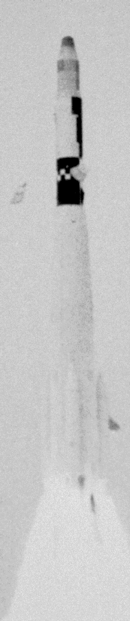 Failed launch of the Thor SLV-2A Agena D with reconnaissance satellite Corona 108, marked as 1966-F05.